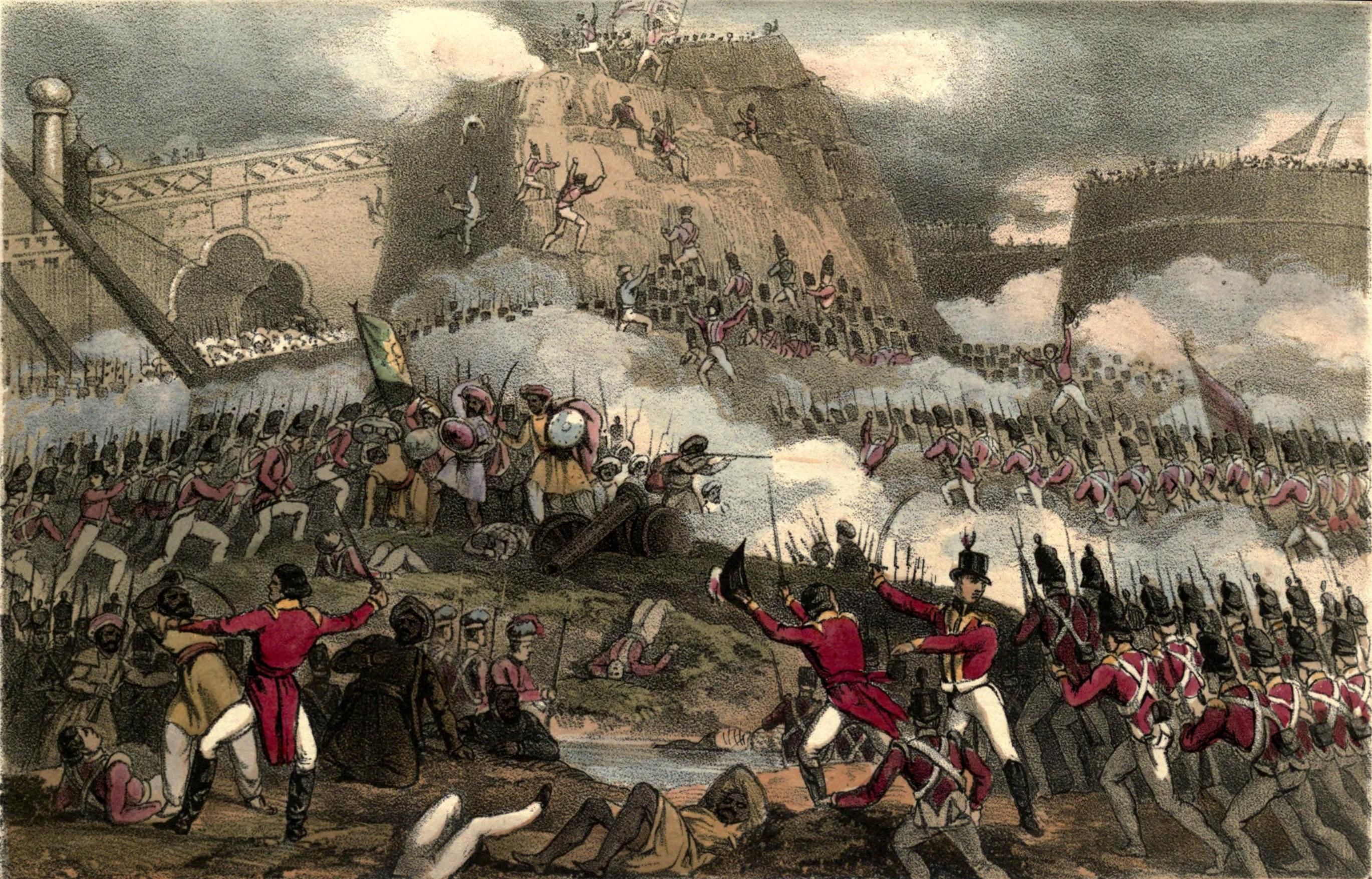 Twelfth Regiment of Foot at the storming of Seringapatam, 4 May 1799.